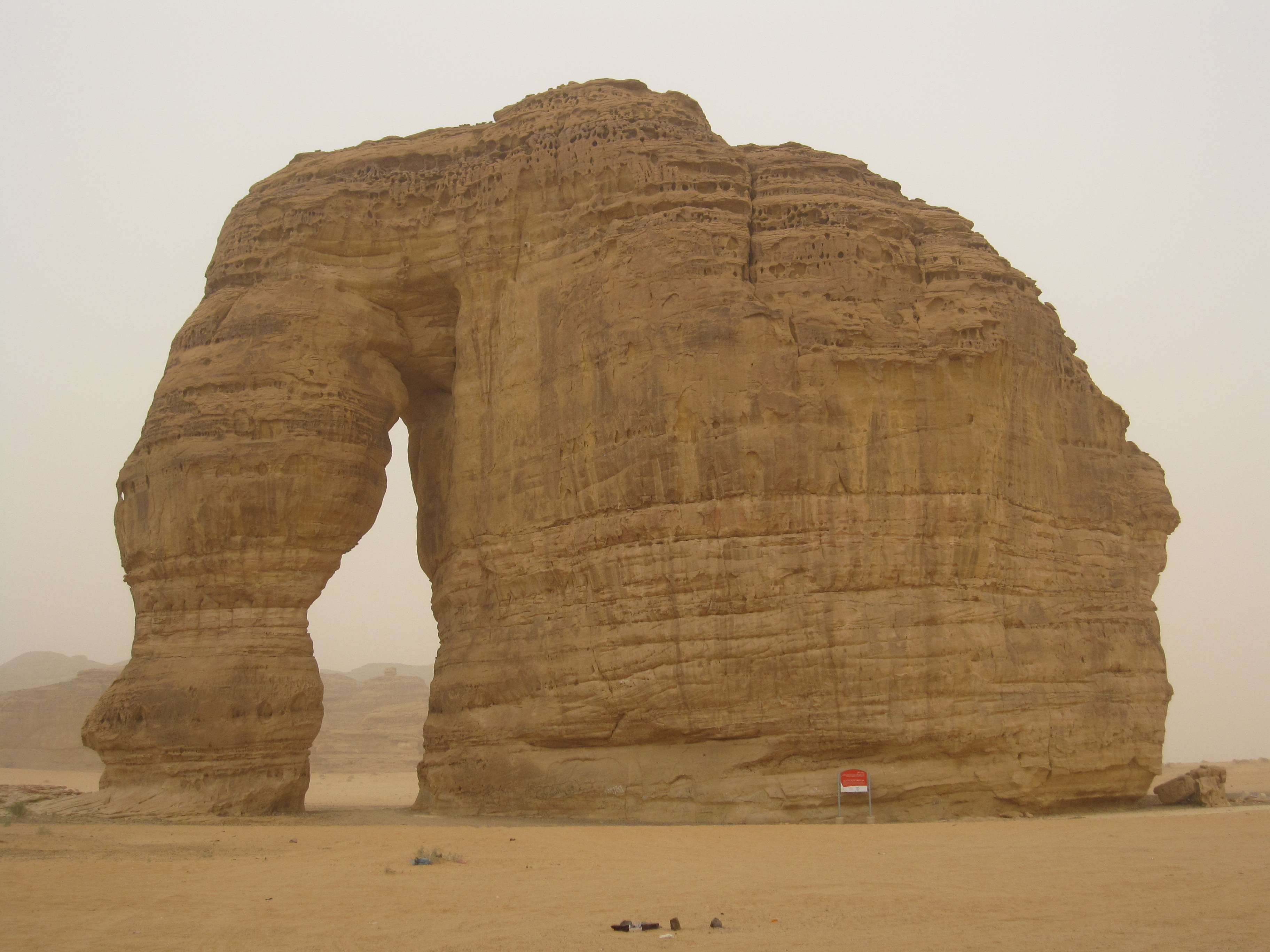 Elephant rock near the city of Al Ula, Saudi Arabia in 2011.